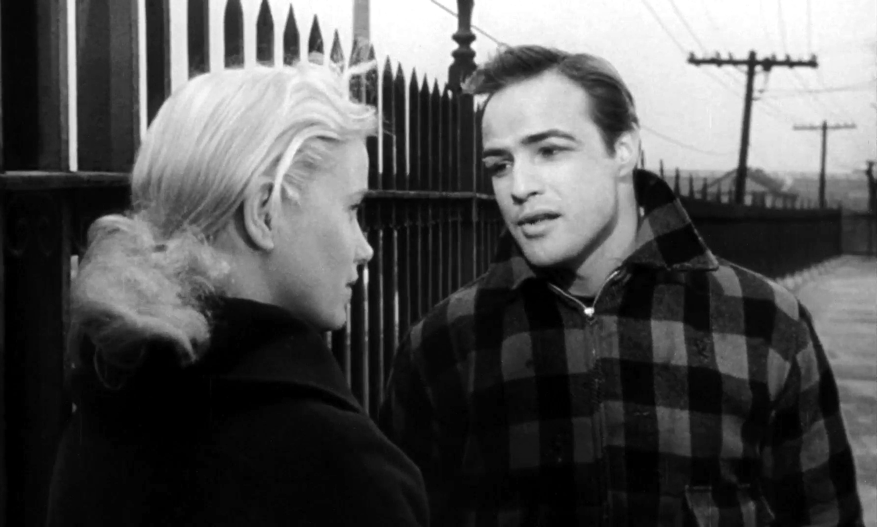 Marlon Brando and Eva Marie Saint in a screenshot from the trailer for the film On the Waterfront.